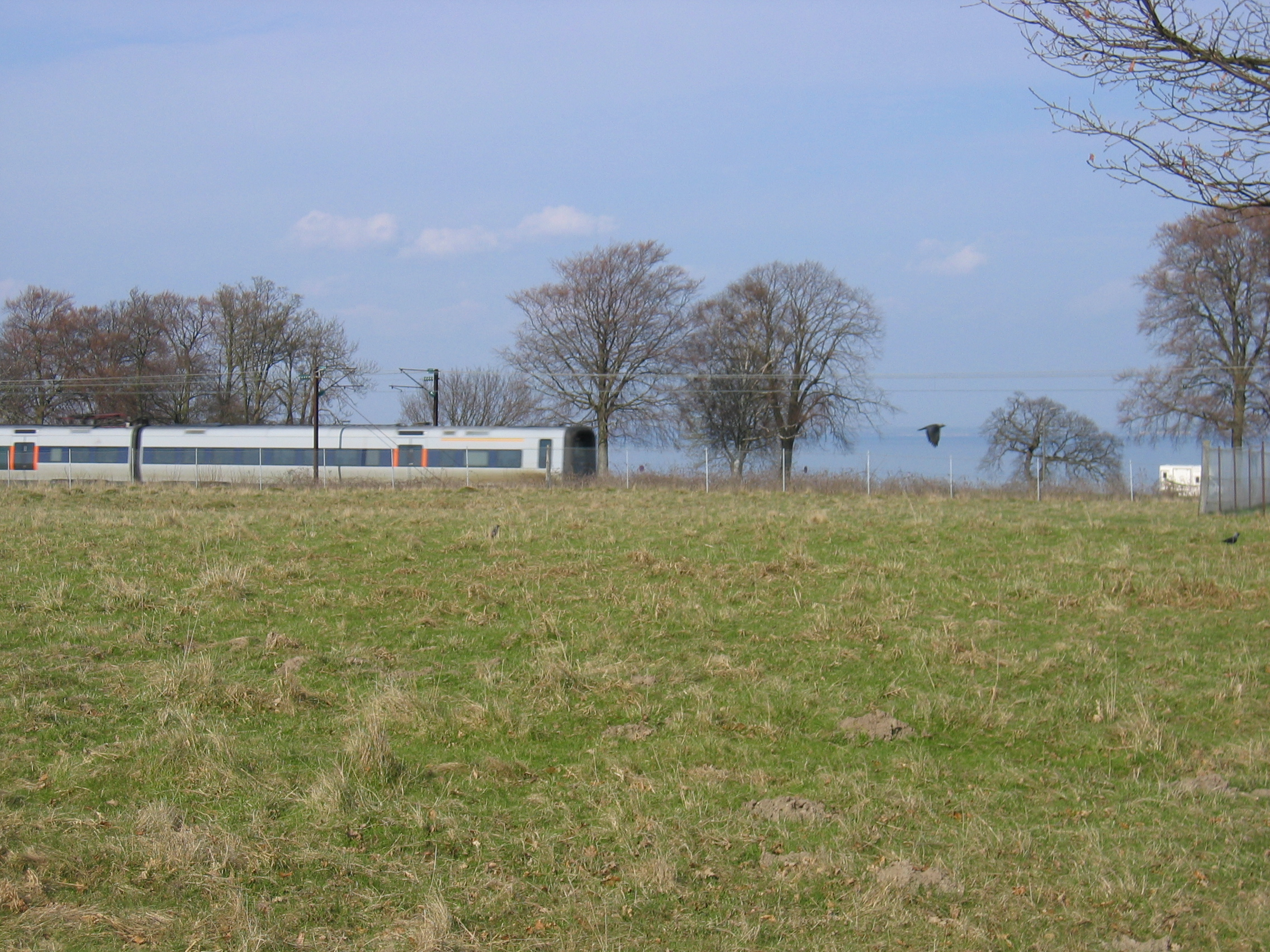 The railroad borders the Eremitage plain, Jægersborg Deer Park, Denmark.